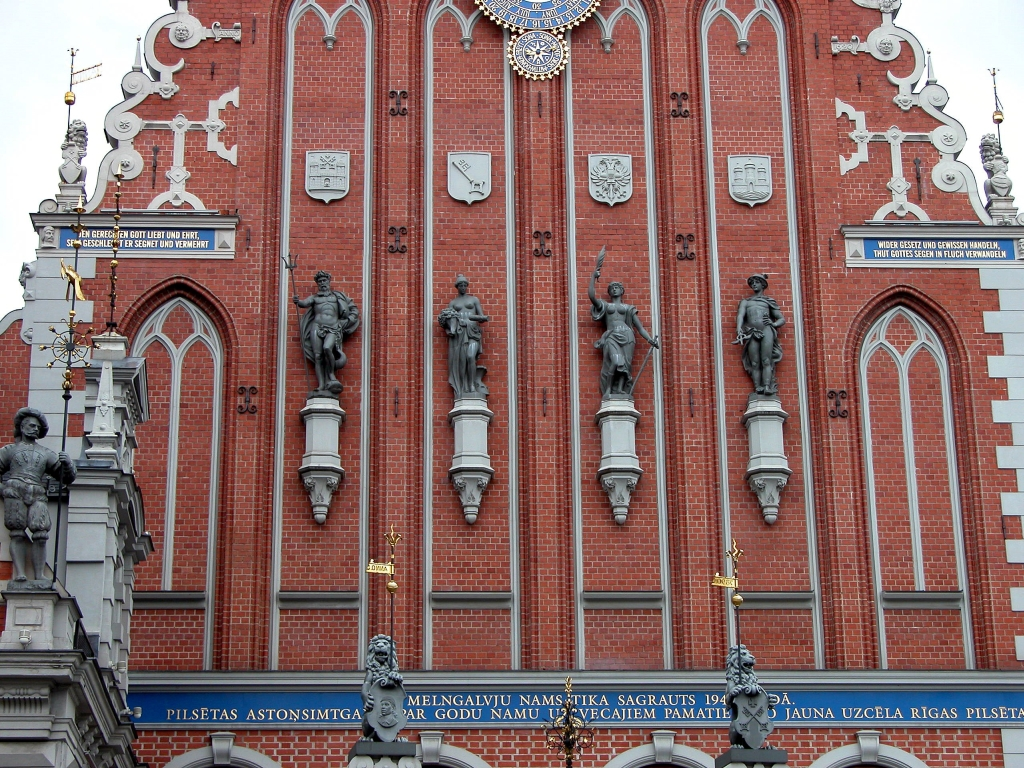 Riga: Front view of the House of the Blackheads.